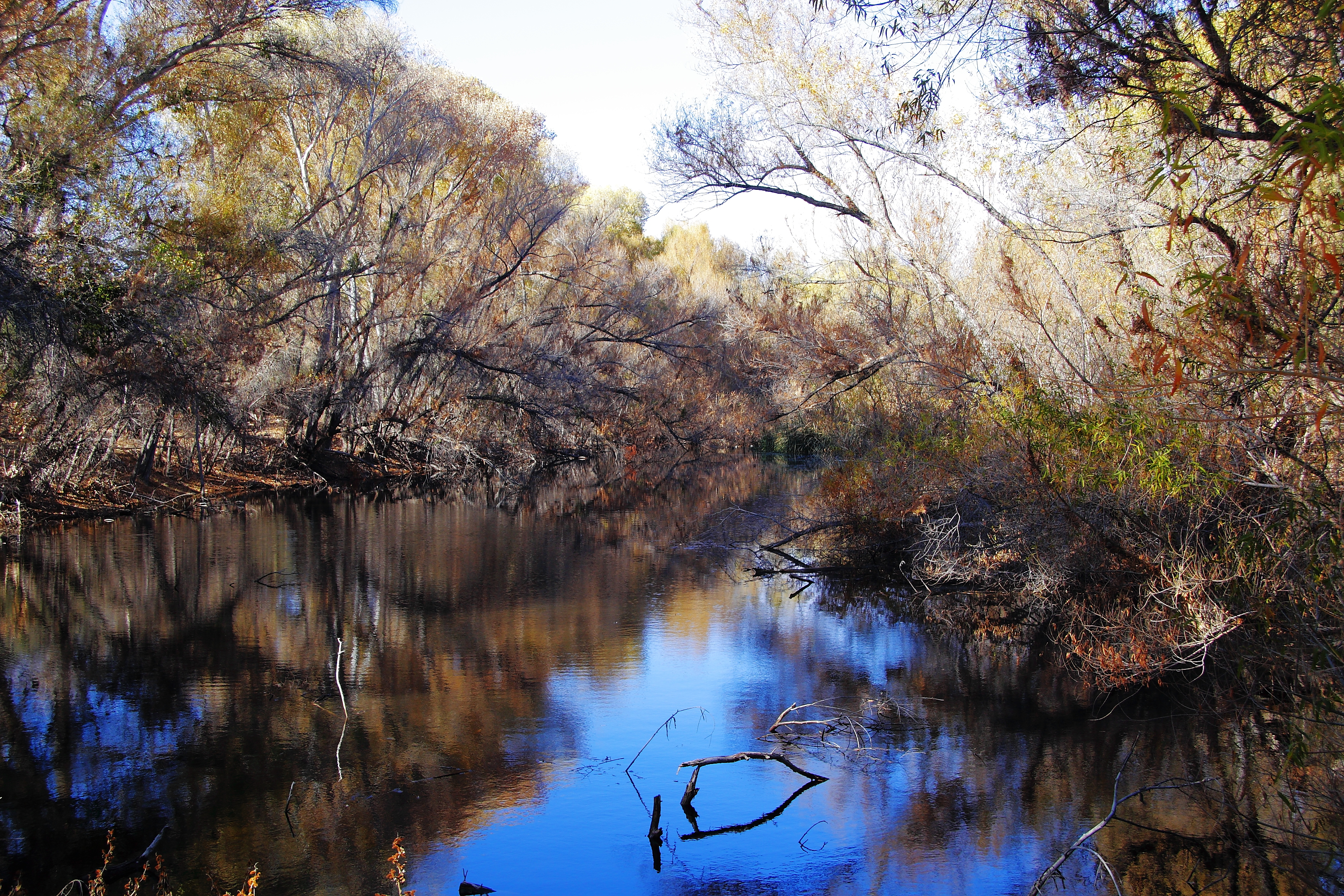 Palm Lake at Hassayampa River Preserve, East side of Wickenburg, Arizona